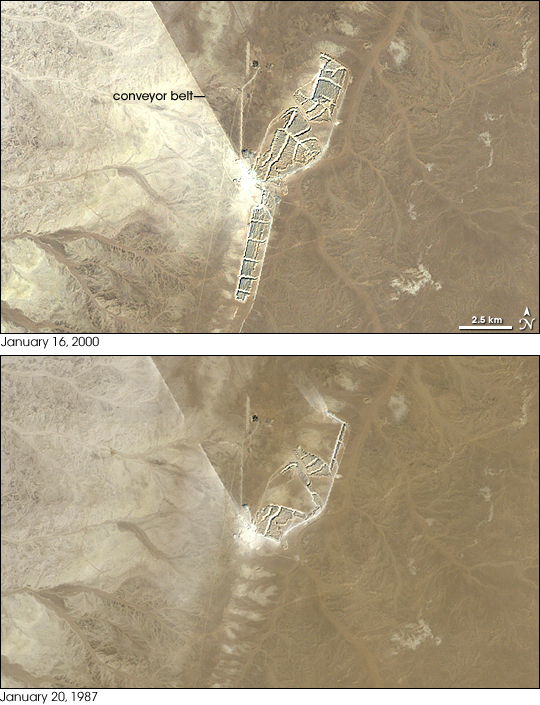 Bou Craa phosphate mine, phosphate mine, 100 kilometers (about 60 miles) from the coastal city of El Aaiún, Western Sahara. NASA image created by Jesse Allen, using Landsat data provided by the United States Geological Survey.